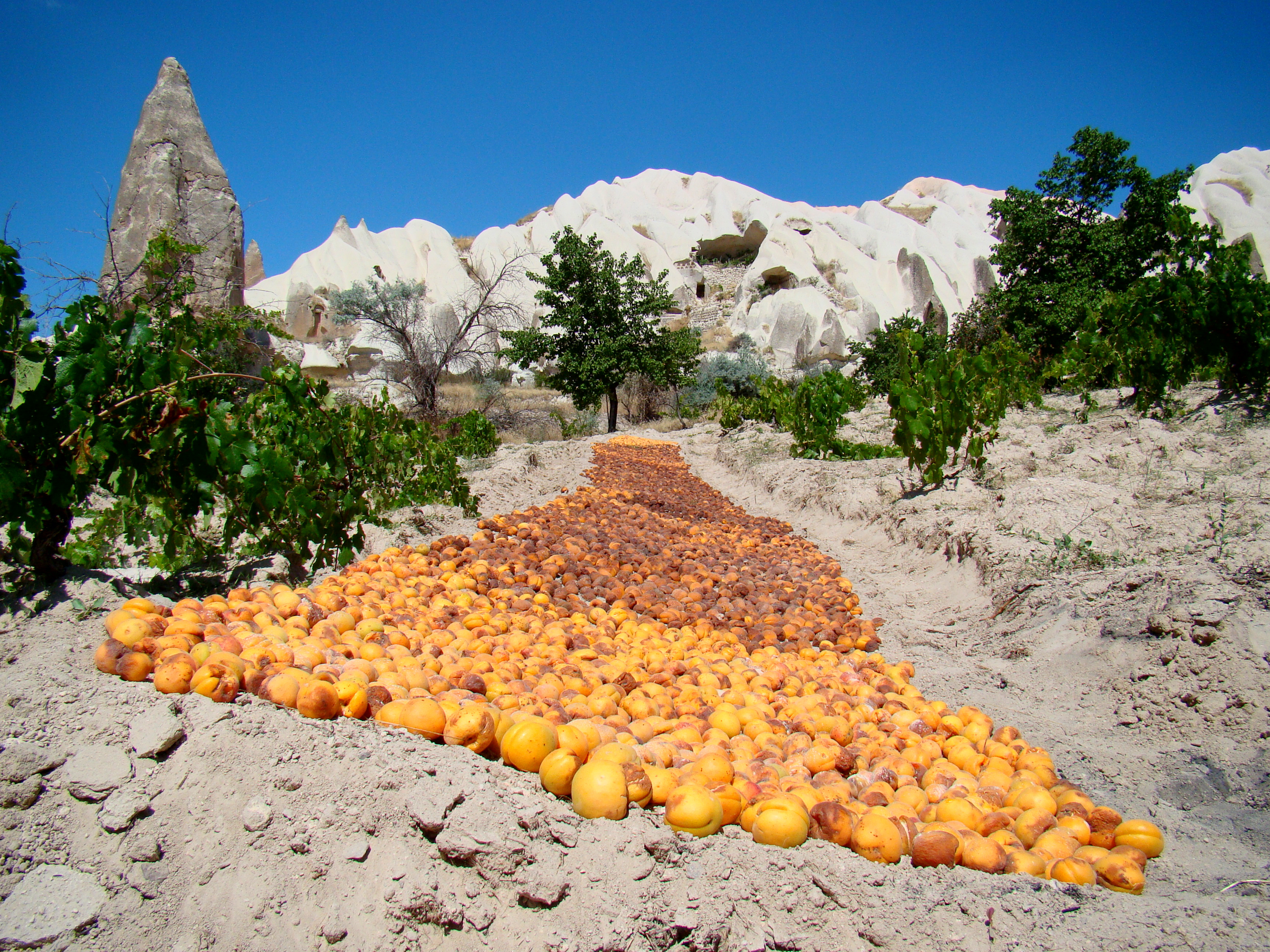 Looking almost like a carpet, apricots are neatly placed on the ground to dry in the summer sun near Göreme in Central Turkey.